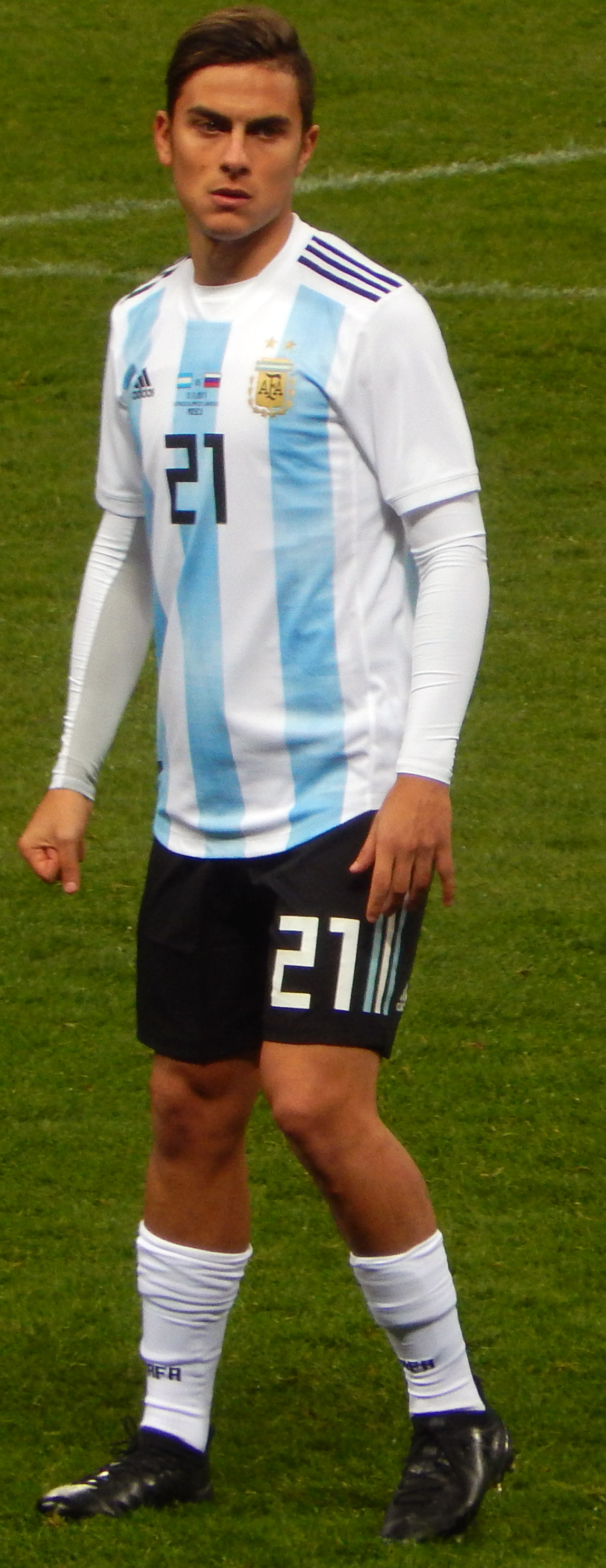 A friendly match between Russia and Argentina in Moscow, Luzhniki stadium, on November 11, 2017.